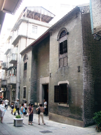 Lou Kao's Mansion, one of the sites of the Historical Center of Macao